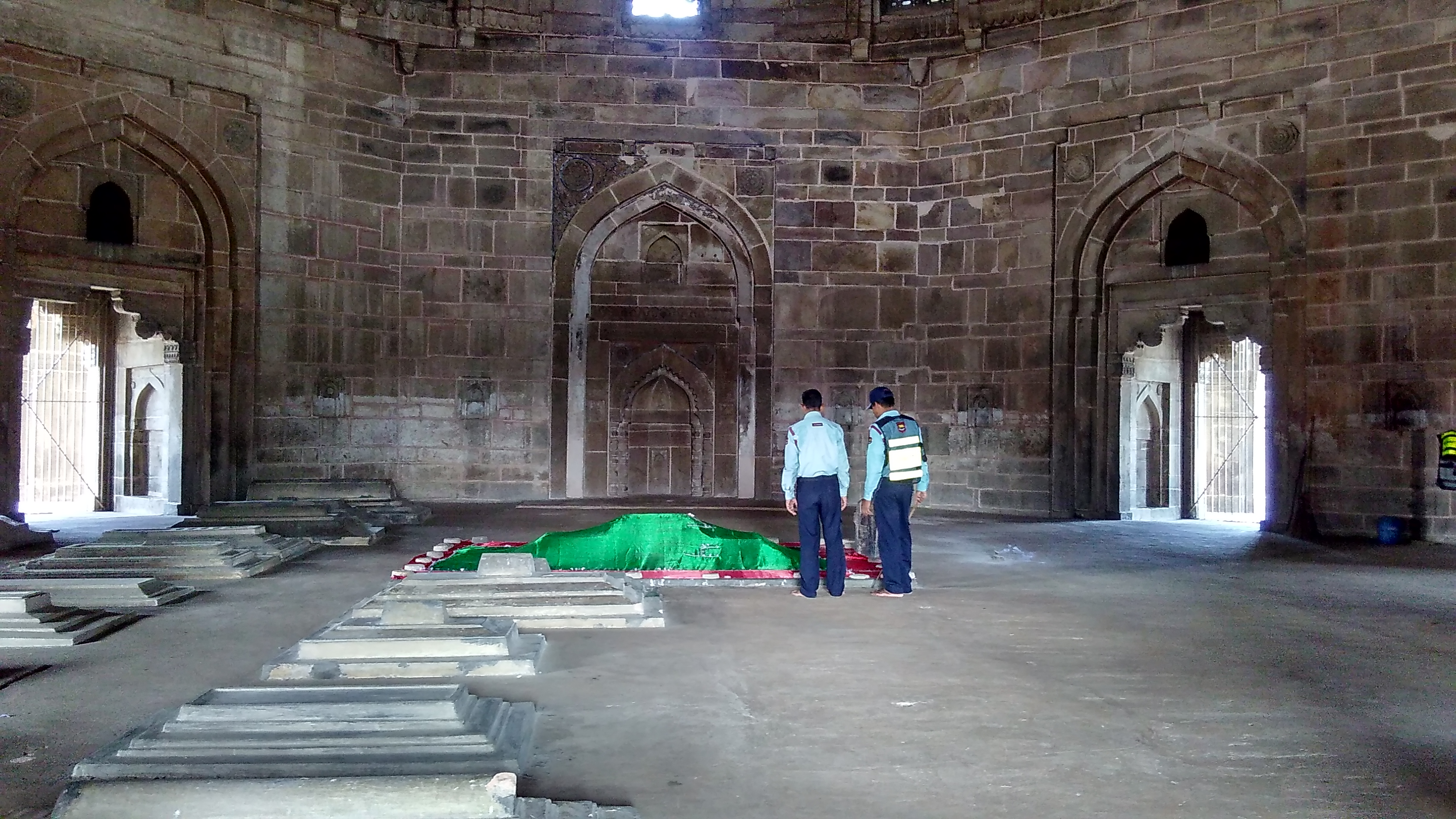 The Tomb ( Covered in Green )